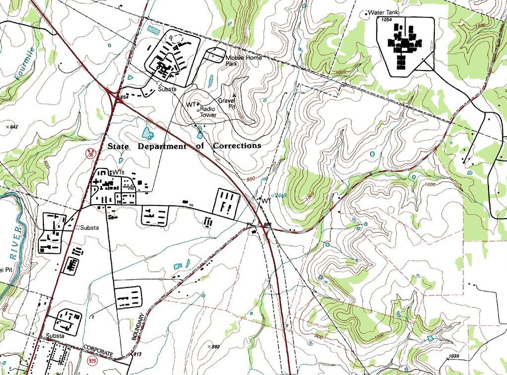 Topographic map of prisons in Gatesville, Texas: Christina Crain (Gatesville), Hilltop, Mountain View, and Alfred D. Hughes units